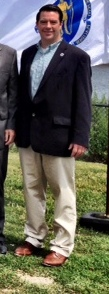 MassDOT Highway Administrator Frank DePaola celebrates the Charleston-Everett Alford Street Bridge opening with chief engineer, Para jayasinghe, Everett Mayor DeMaria, Senator DiDomenico, Commissioner Gilbody, and Rep. Ryan.